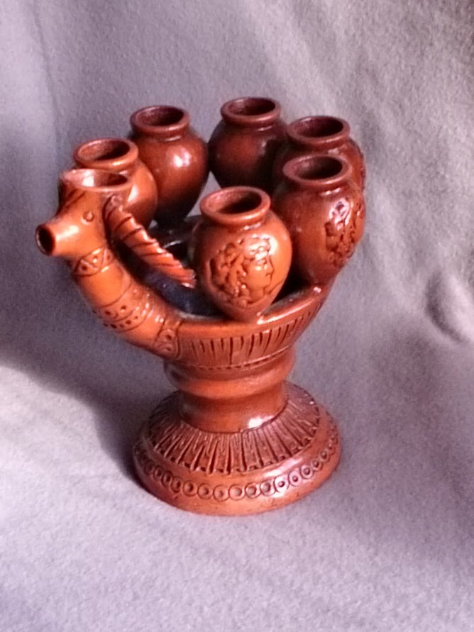 Georgian traditional vine vessel — Marani